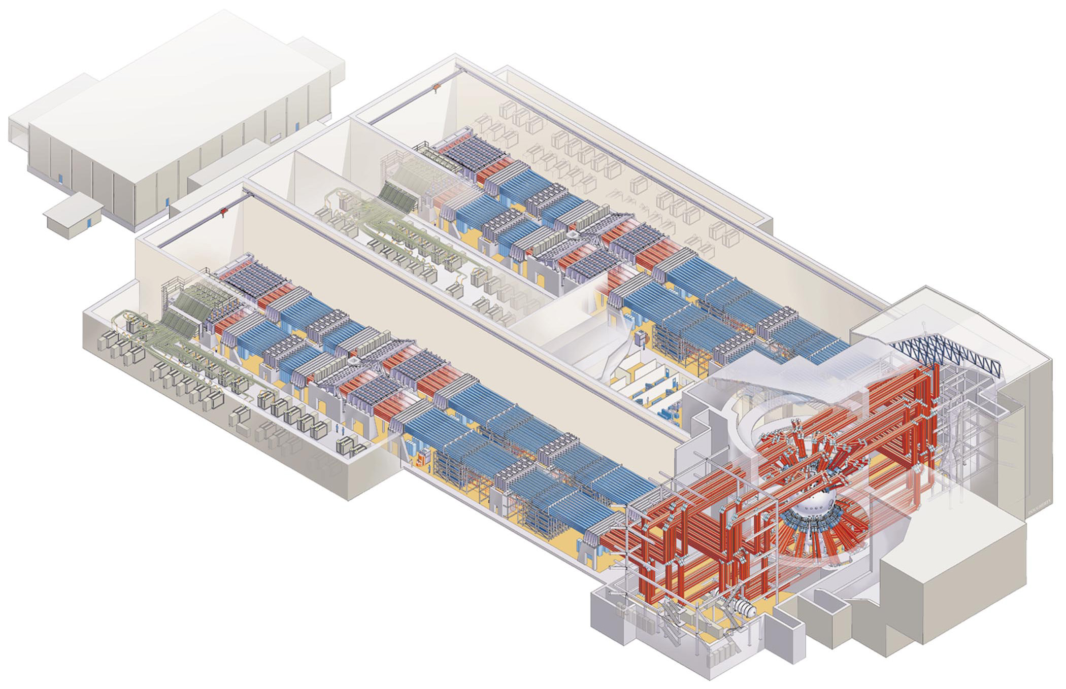 Layout of the NAtional Ignition Facility. Image taken from a LLNL publication.